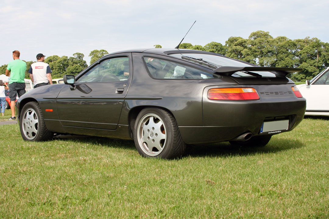 Porsche 928 S4 at Classic Days Schloss Dyck 2012. View: rear left